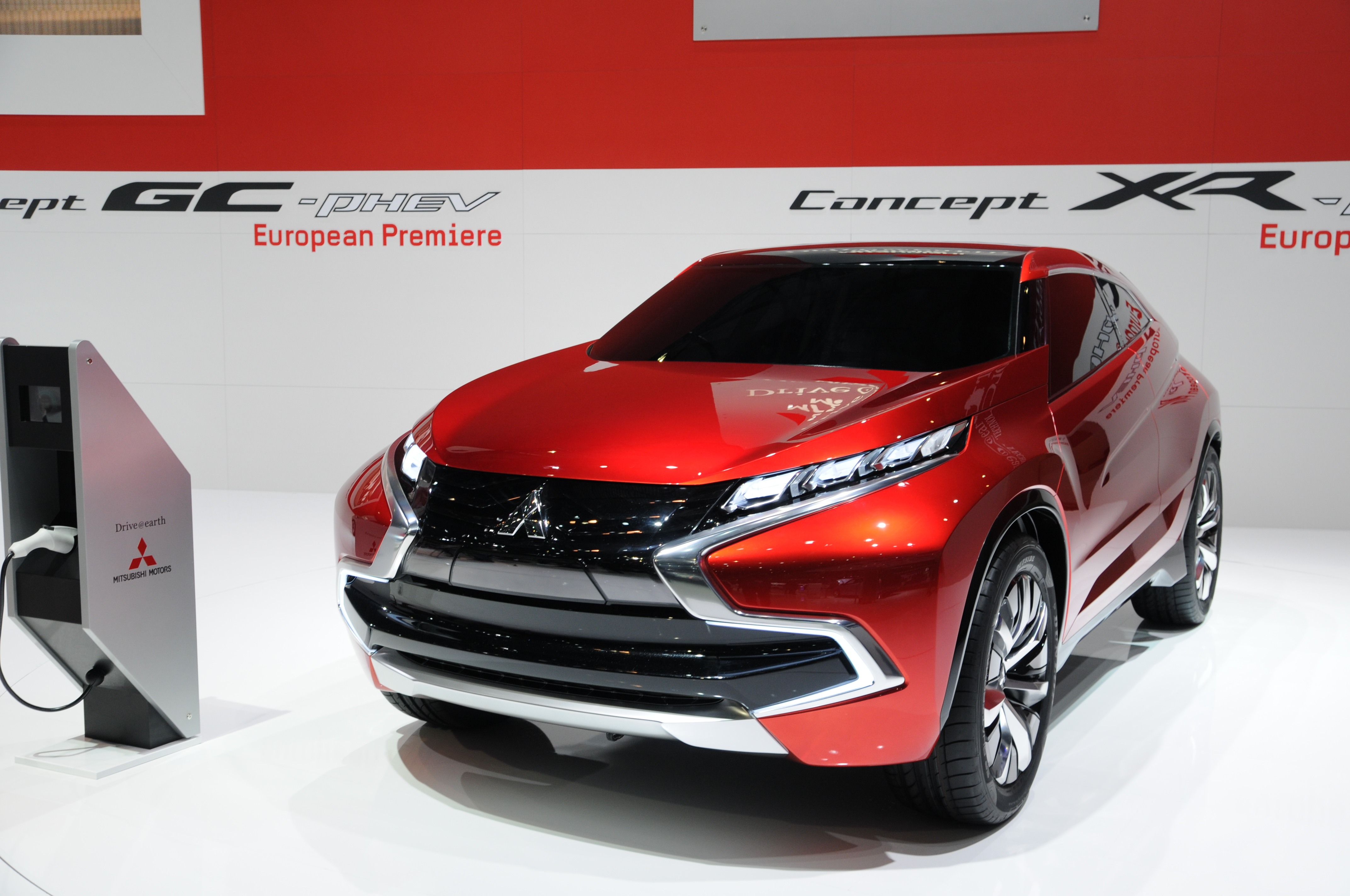 Mitsubishi Concept XR-PHEV at the Geneva Motor Show 2014 (photo taken on the first press day)